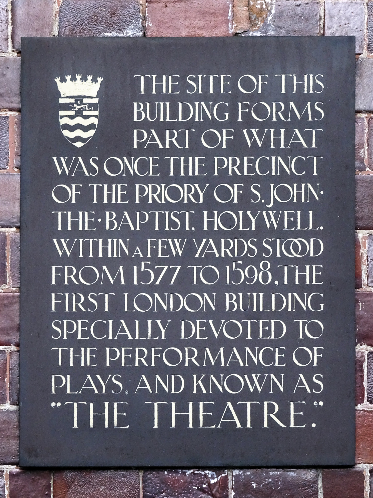 Plaque erected in 1920 by London County Council at 86-88 Curtain Road, EC2 Hackney